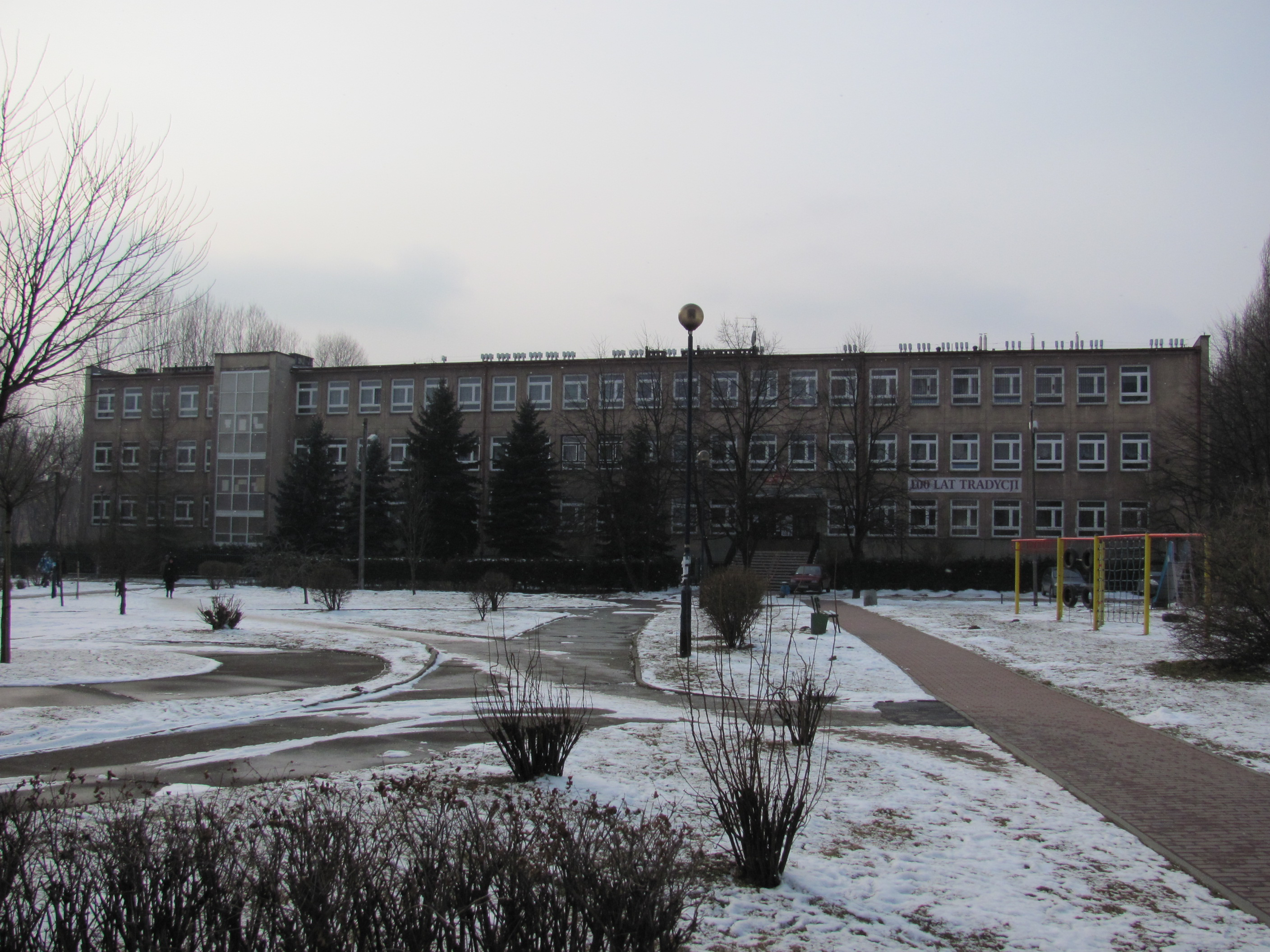 Building of Jan Kochanowski High School in Kraków